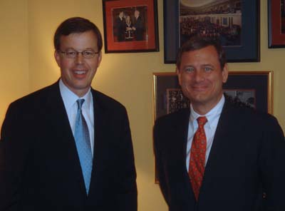 Senator Jim Talent Visits with Chief Justice John Roberts in his Washington D.C. Office Prior to Confirmation